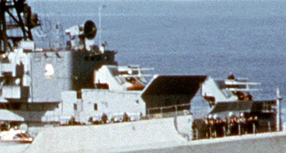 57 mm quadruple universal gun ZiF-75 on the Soviet large anti-submarine ship «Gremyashchiy».